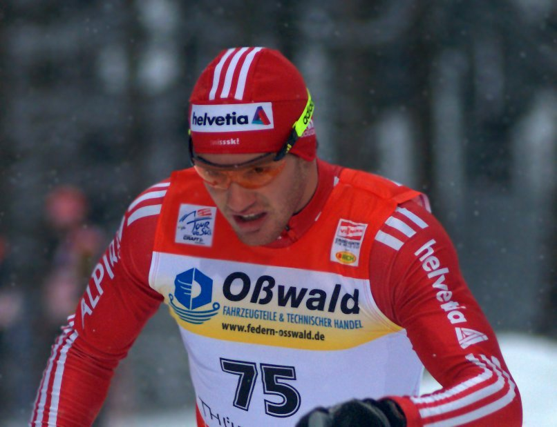 Dario Cologna at the Tour de Ski 2010 in Oberhof